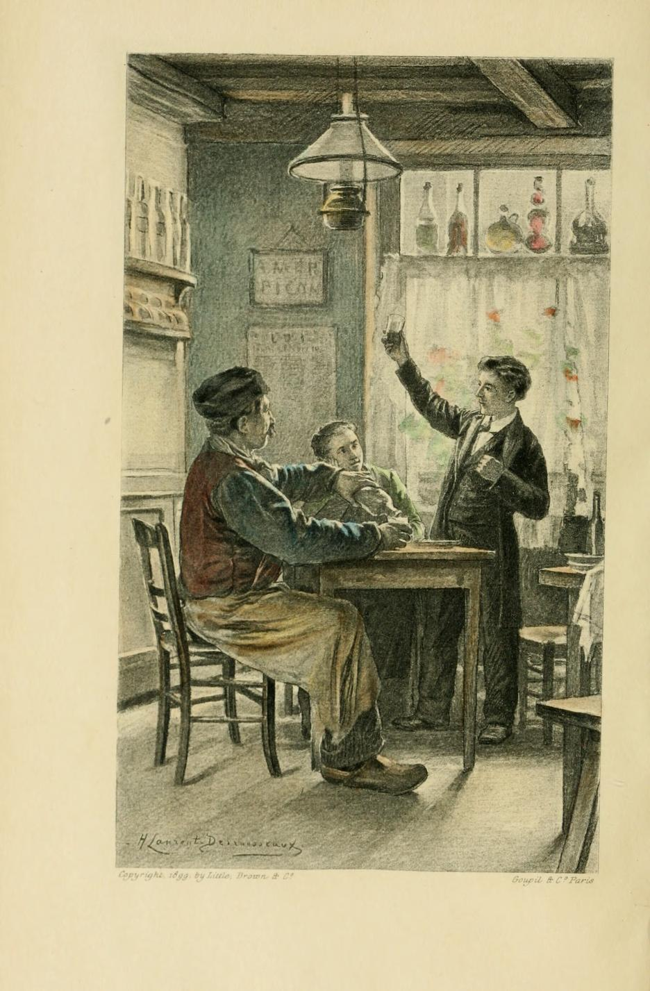 Cover page image from `Le Petit Chose` by Alphonse Daudet published by Society of French and English Literature. New York. 1898